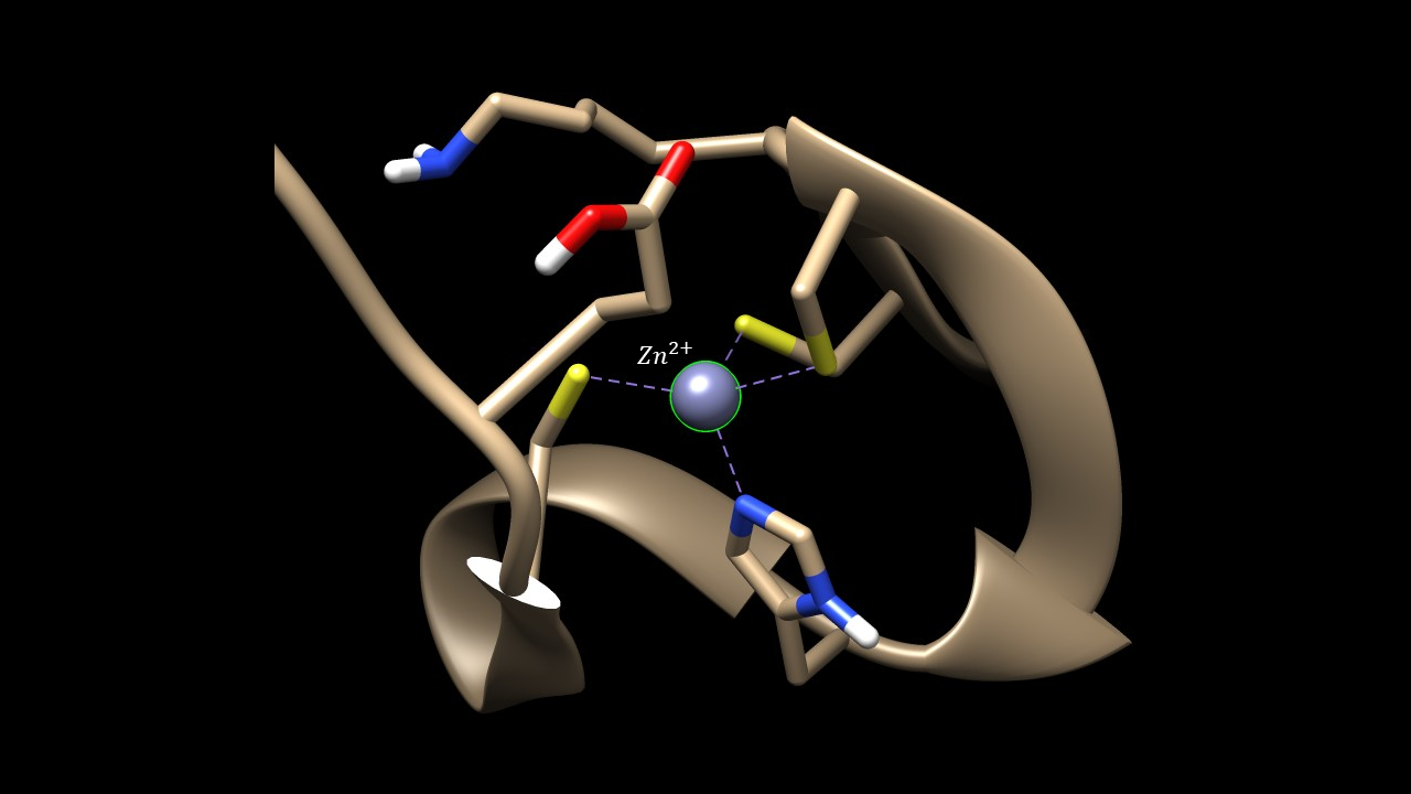 a close up of the zinc finger motif on the HIV-1 nucleocapsid protein